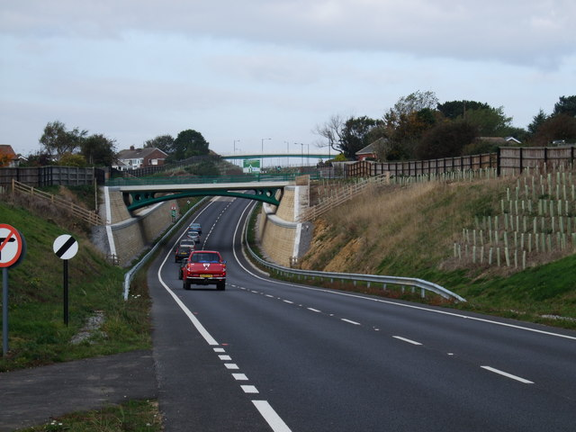 New A165 by-pass, Osgodby. This new bypass cuts through the small estate of Osgodby, the bridge in the photo carries the road that was there before this new bypass was built in 2008. This re-positioned road was principally built because the old A165 was getting perilously close to the edge of the cliffs at Cayton Bay, due to landslips and coastal erosion, which is well documented in this part of the world.